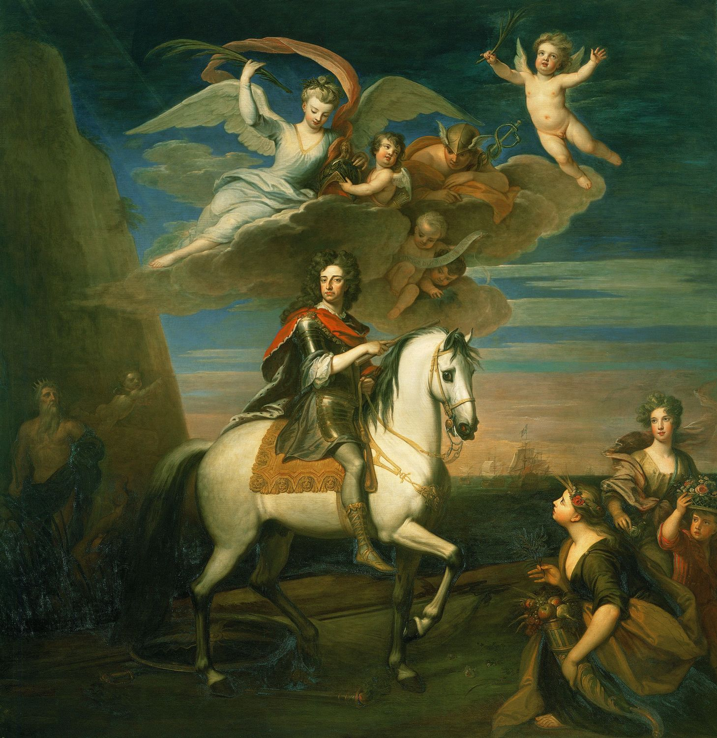 William III and II on horseback as a peacemaker